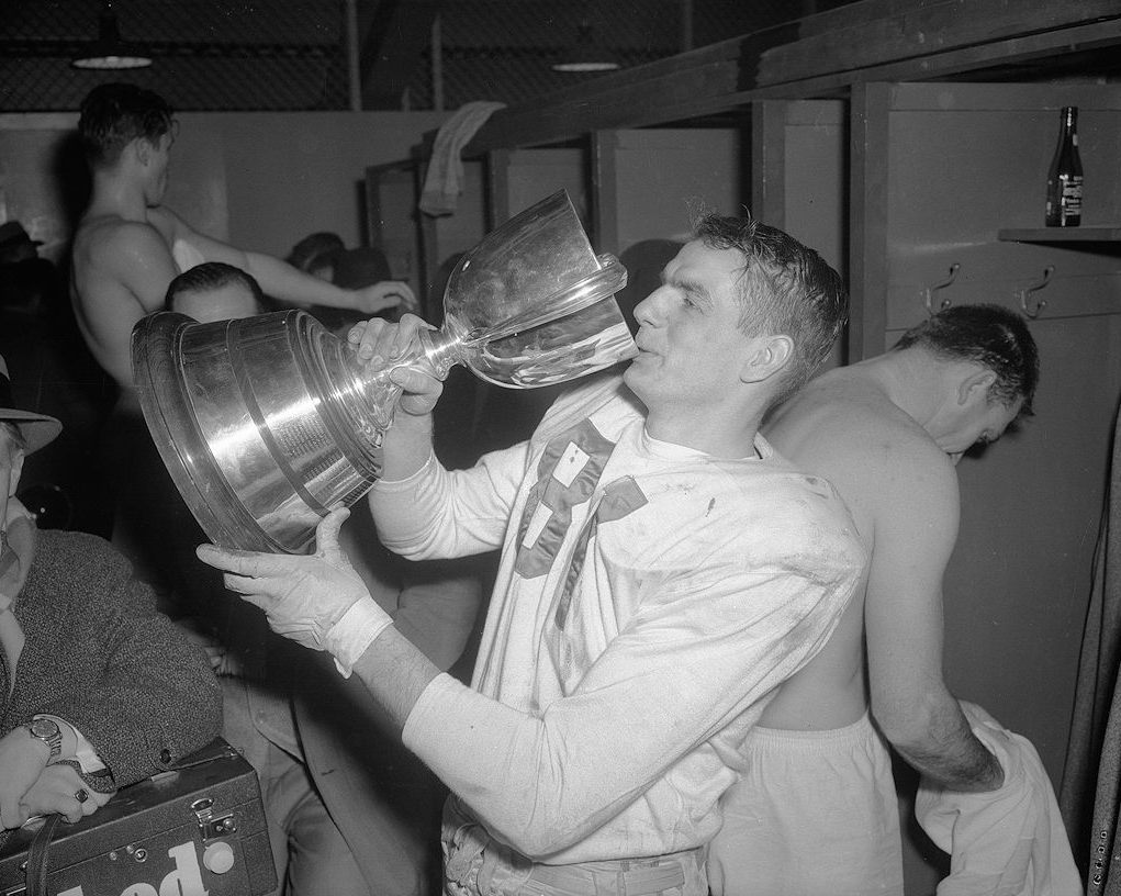 Don Getty, future Premier of Alberta, drinking out of the Grey Cup in the locker room at Varsity Stadium, Toronto, Ontario, Canada. The 44th Grey Cup game was played on 24 November 1956 before 27,425 fans at Varsity Stadium in Toronto. The favoured Edmonton Eskimos won their third straight Grey Cup over the Montreal Alouettes by the score of 50 to 27.